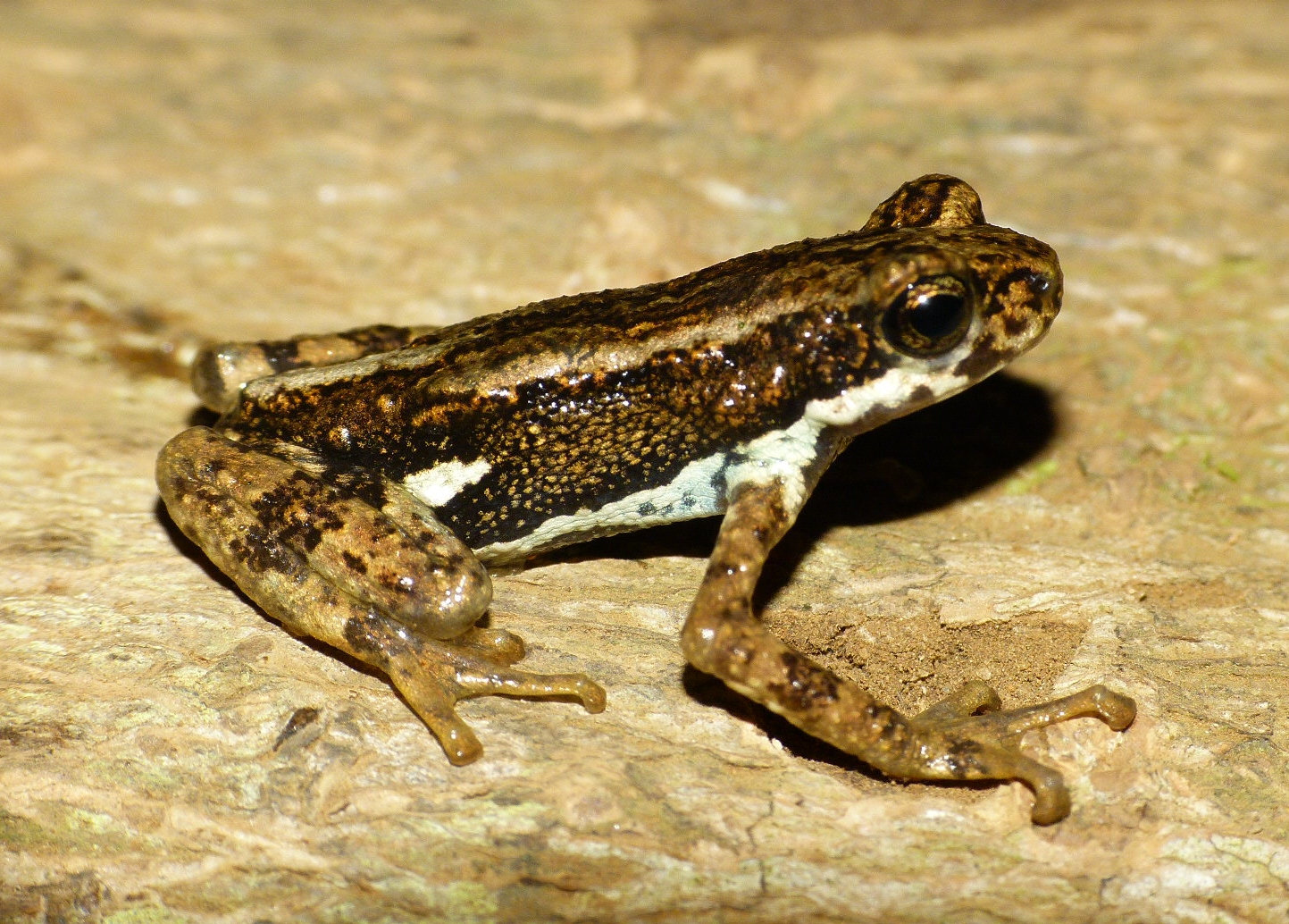 Pedostibes tuberculosus in the Western Ghats of northern Wayanad